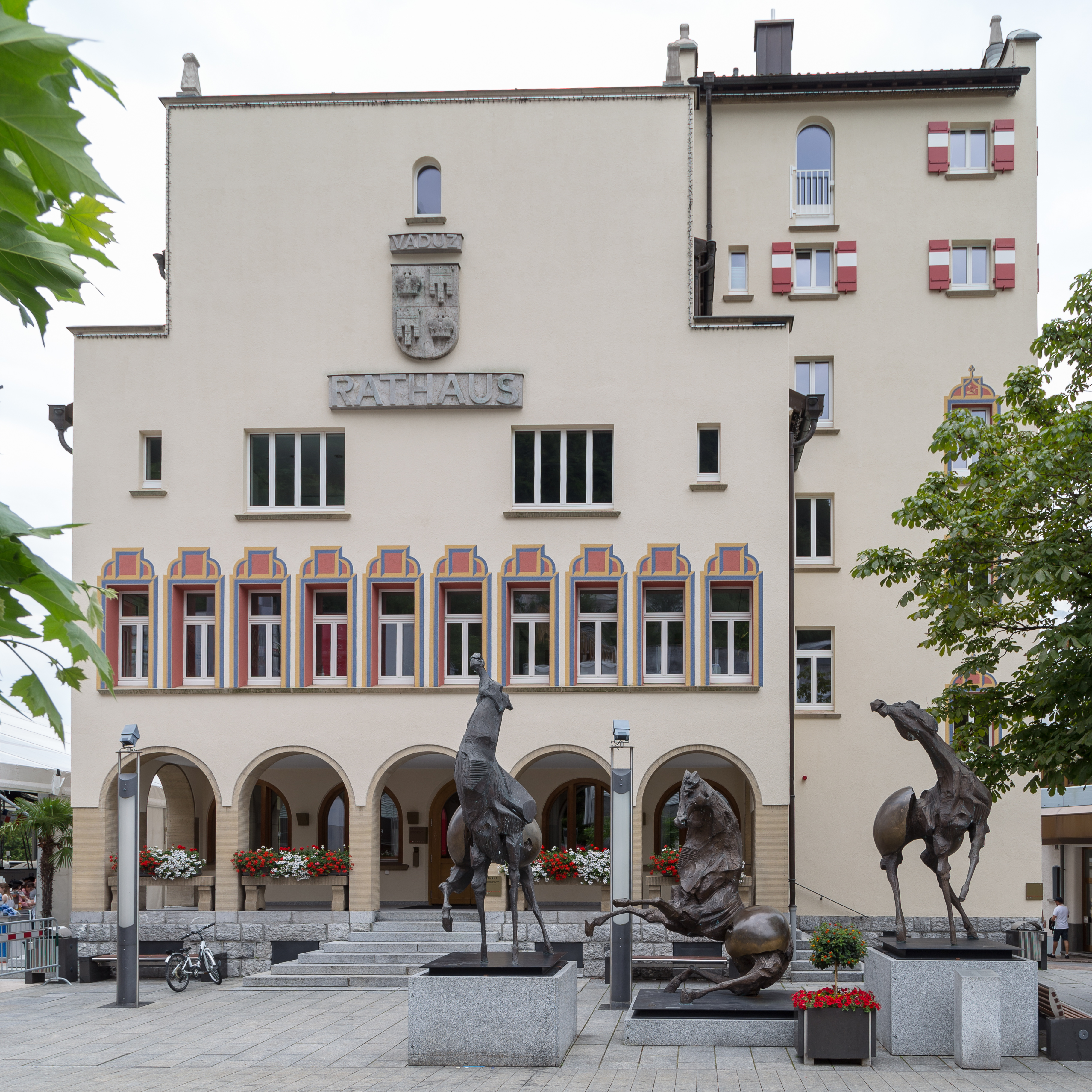 Town hall of Vaduz (Liechtenstein) with sculpture „Tre Cavalli“ created by Nag Arnoldi in front